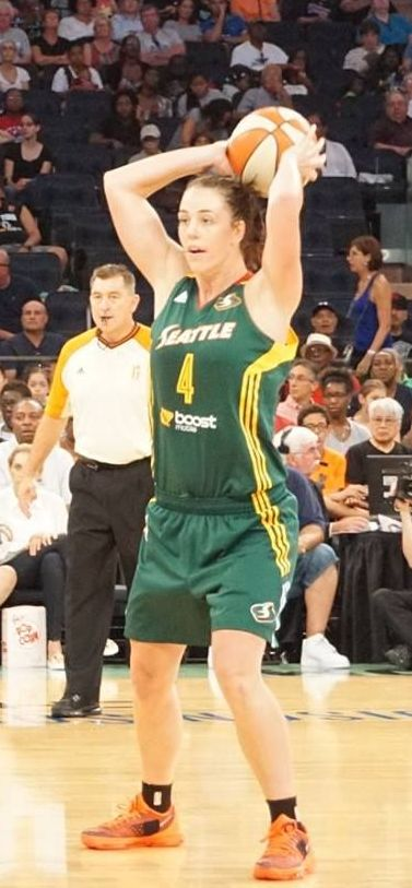 Jenna O'Hea at 2 August 2015 game